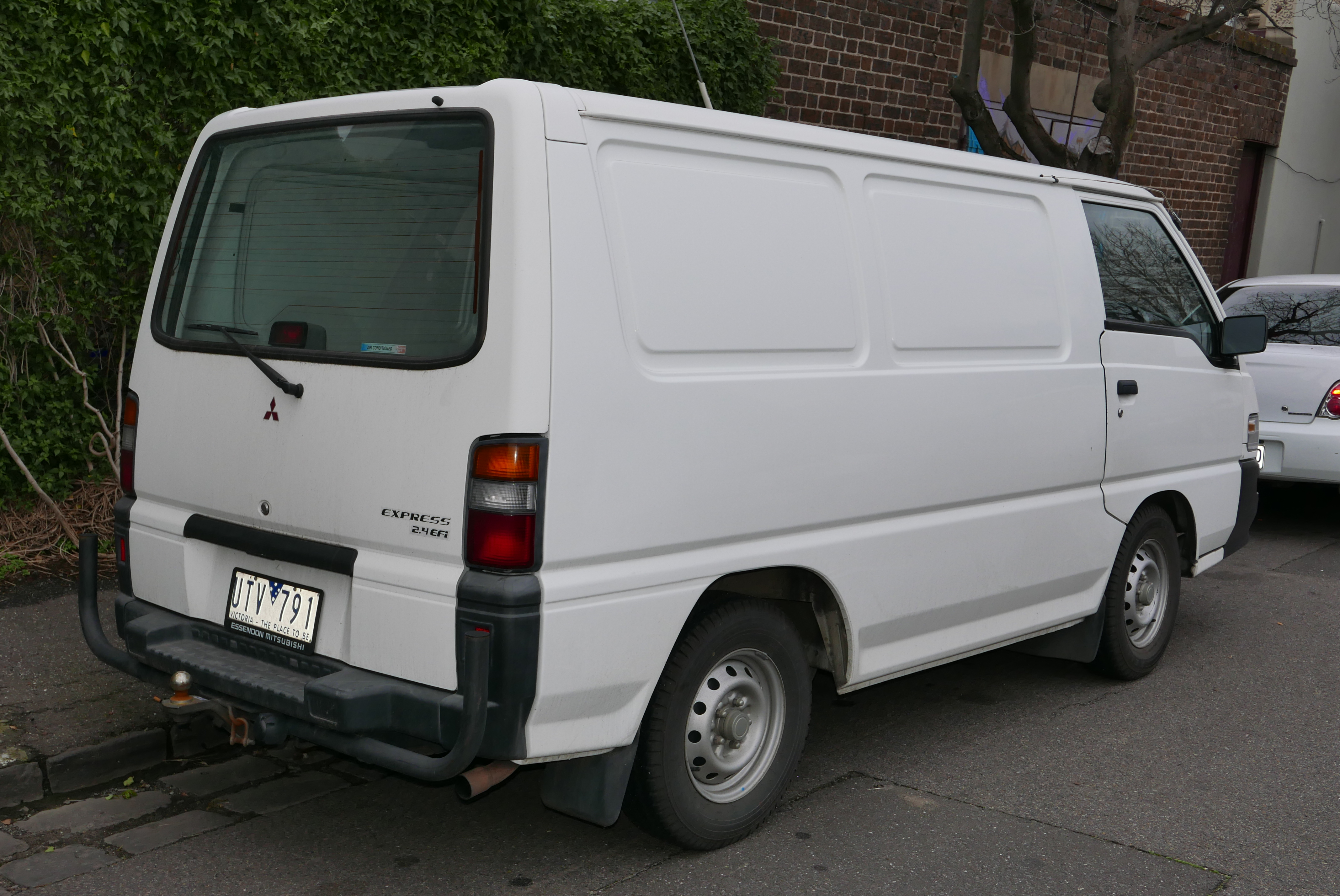 2007 Mitsubishi Express (SJ MY07) SWB van. Photographed in Fitzroy North, Victoria, Australia. Vehicle registration enquiry results Jurisdiction Victoria Registration UTV791 Chassis code JMFGNP04V7A002401 Engine code 4G64MY0504 Compliance date 2007-05 Year of manufacture 2007